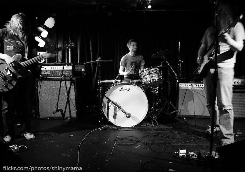 American psychedelic rock band Radio Moscow performing live at the Funhouse, Seattle on June 14, 2008.